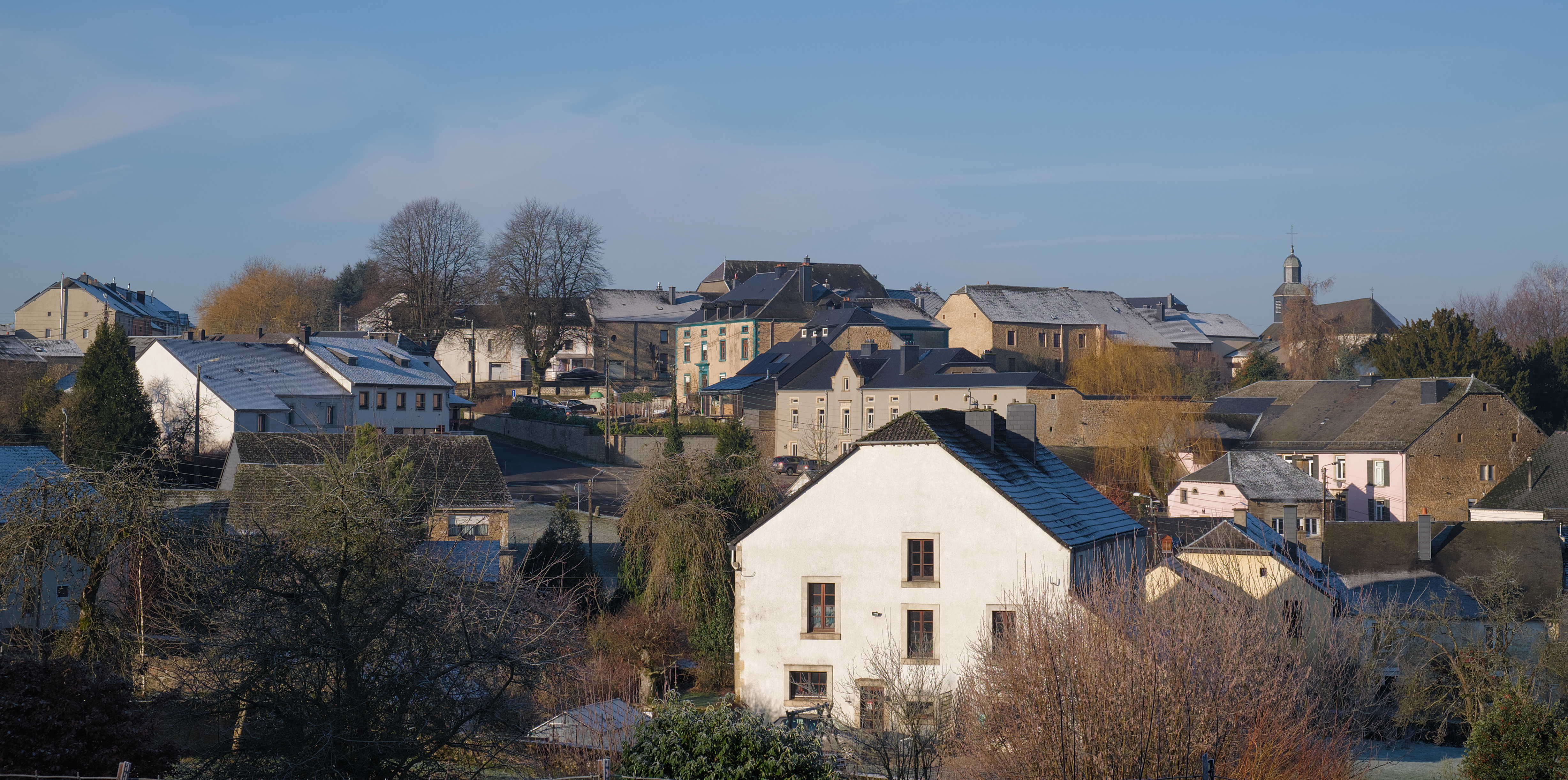 View of Izel from Rue de la Sartelle